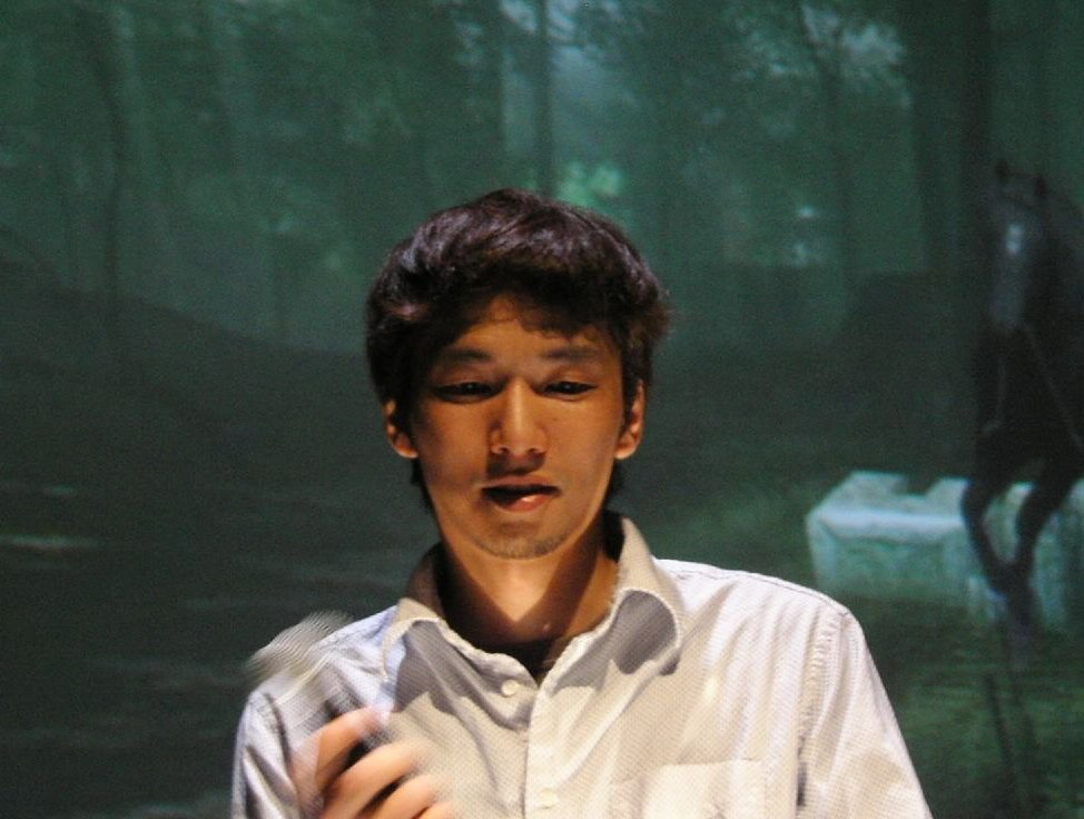 Fumito Ueda at the Art Futura 2005 in Barcelona.